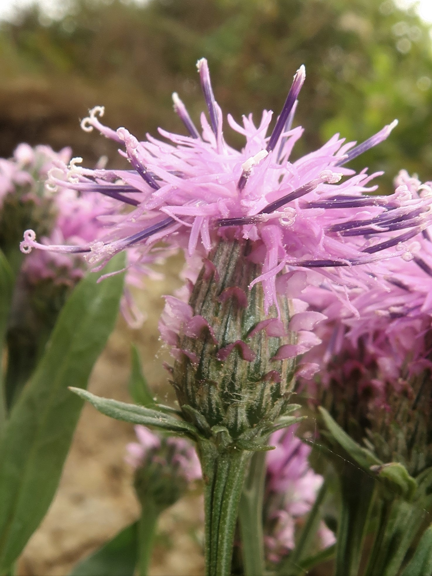 Saussurea nakagawae, Sado Island, Niigata pref., Japan